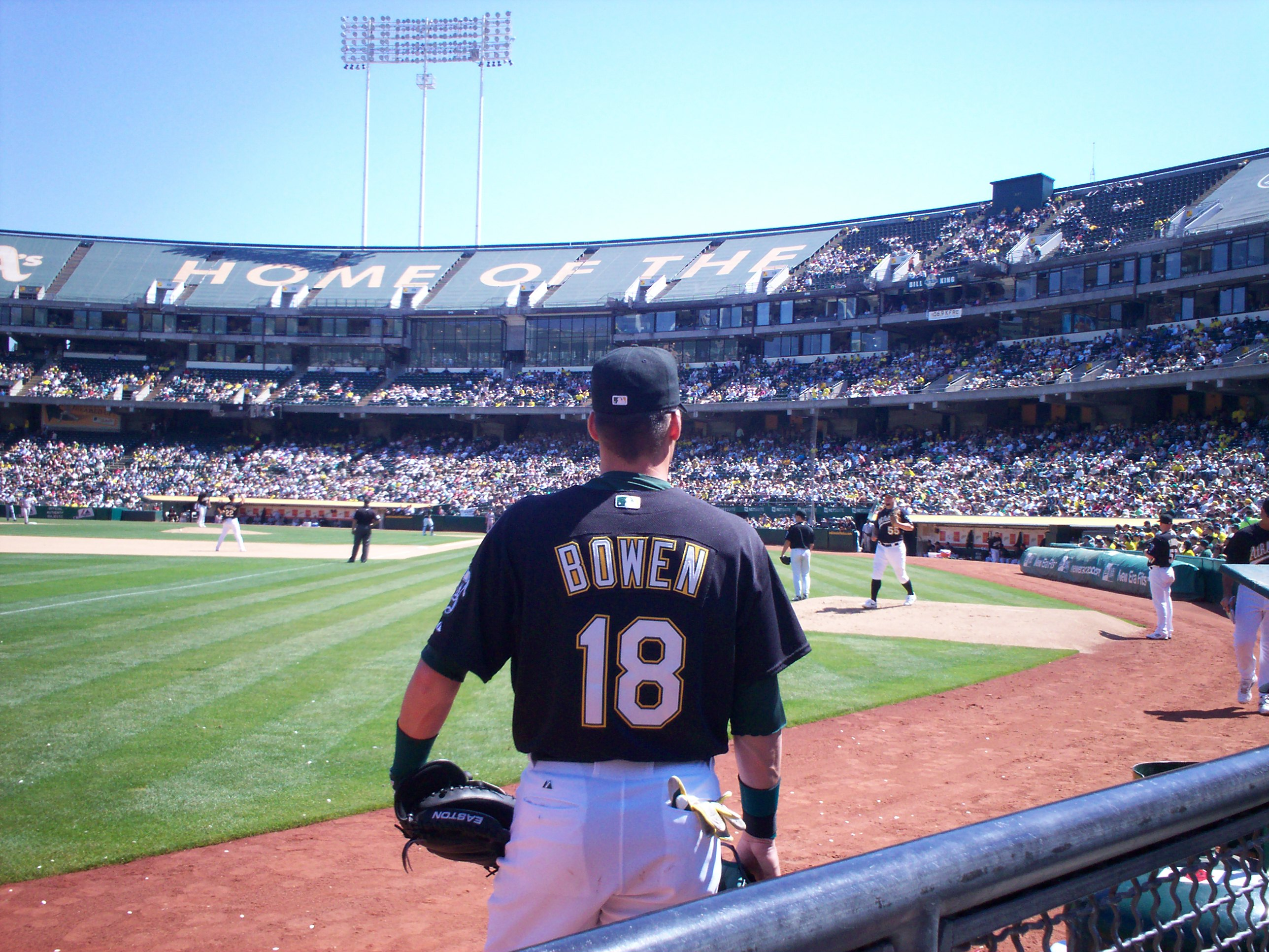 Rob Bowen prepares to warm up an Athletics reliever in Sunday, June 22nd 2008's game aginst the Marlins.